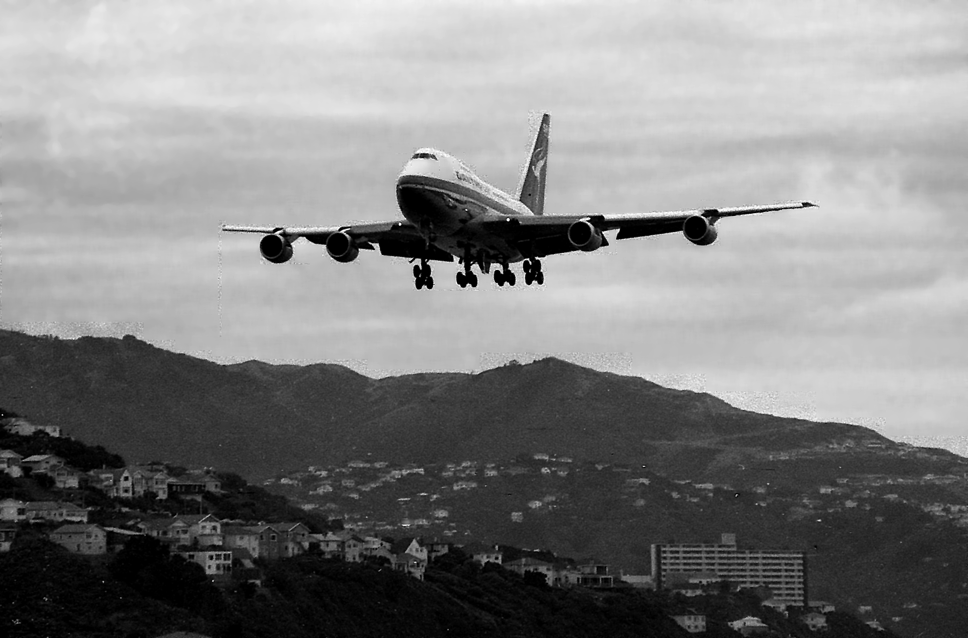 Arrival of a QANTAS Boeing 747SP at Wellington Airport, the first 747 to land at the airport. Wellington, New Zealand.